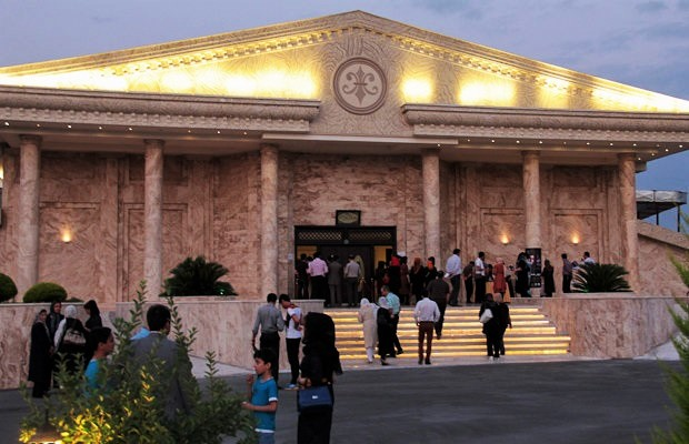 Event people at Amol